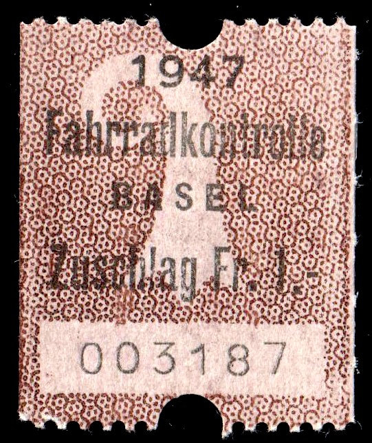 Switzerland Basel 1947 bicycle control revenue 1fr - 4. Perforated 14.5, horizontally.